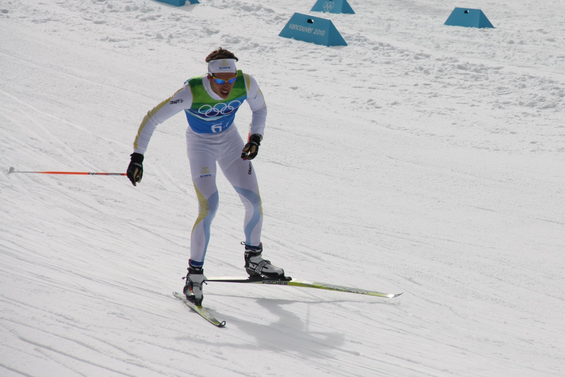 Marcus Hellner at the Winter Olympics in Vancouver 2010